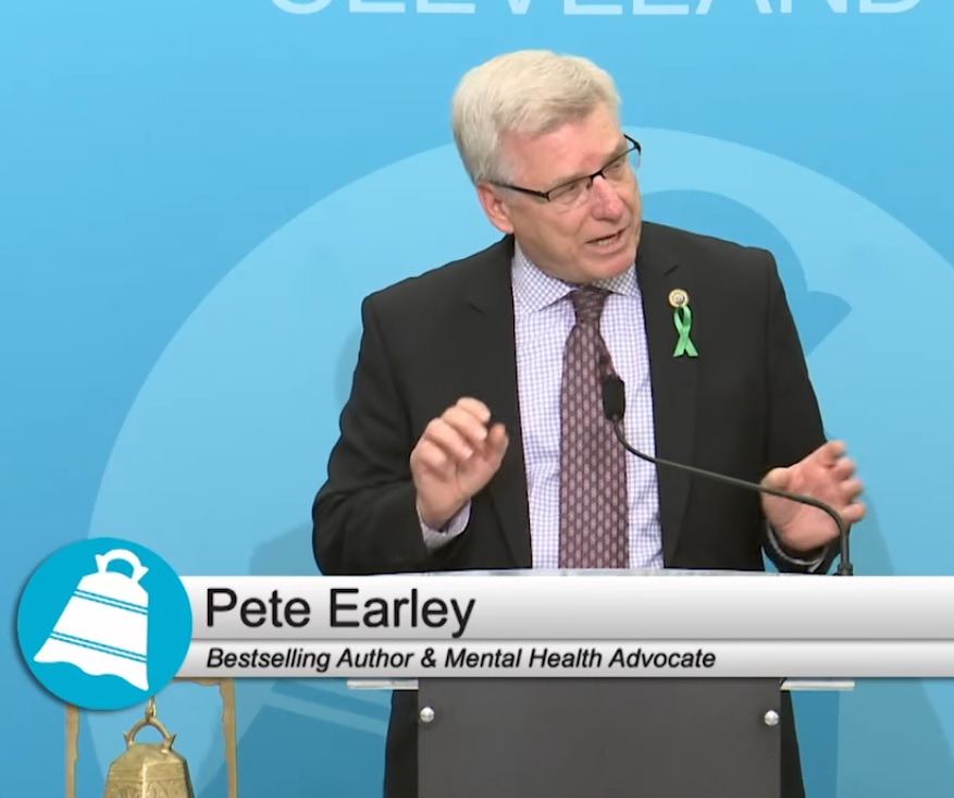 Screen capture of Pete Earley speaking to the City Club of Cleveland on May 27, 2016